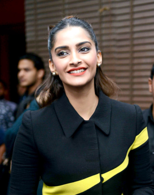 Sonam Kapoor promotes ‘Neerja’ at the Pro Kabaddi in Delhi